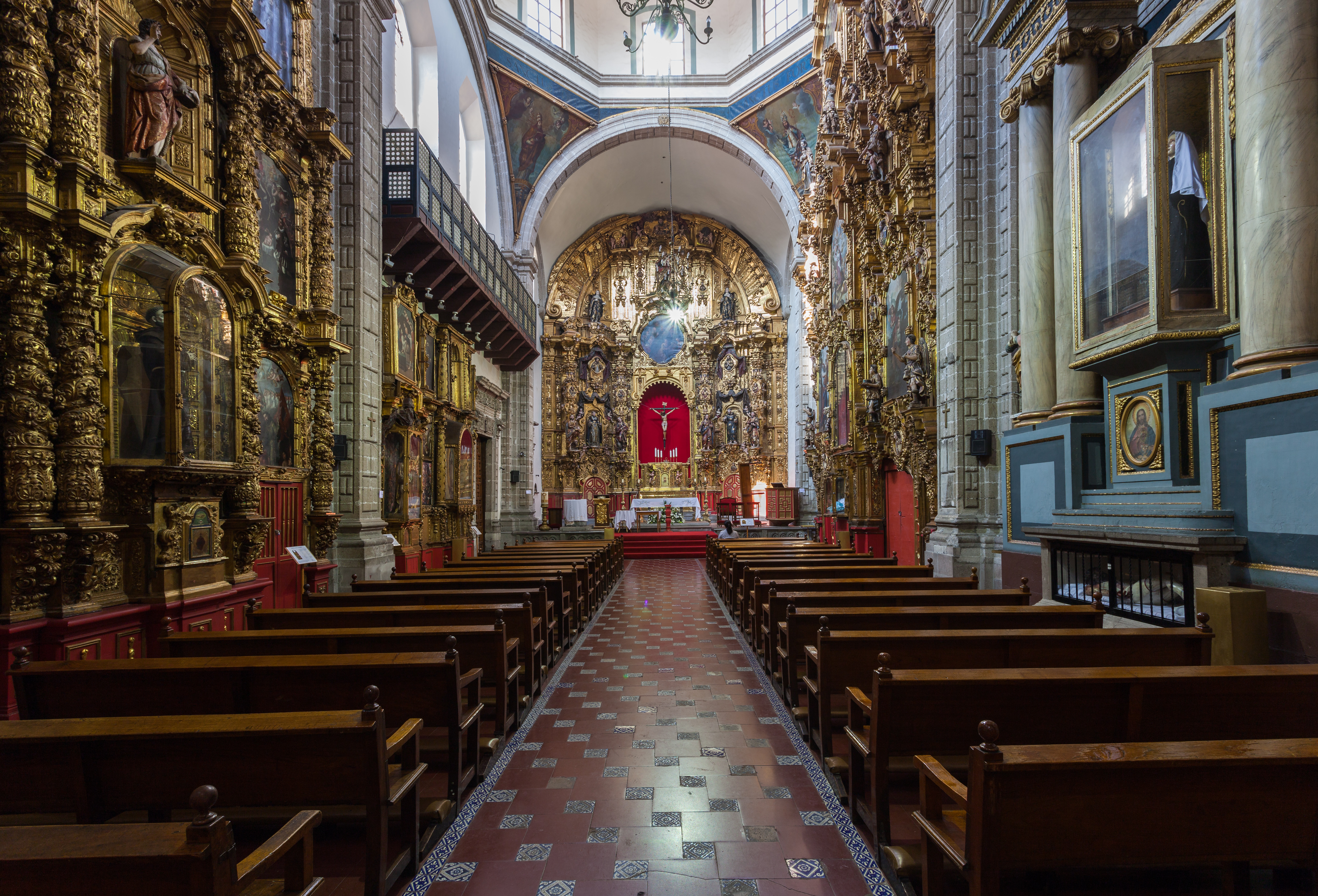 Temple and Church of Regina Coeli, Mexico City, Mexico